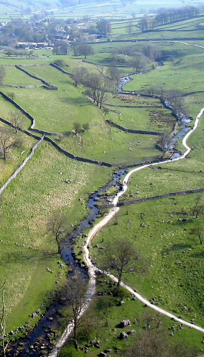 Malham Beck seen from the top of Malham Cove, with Malham in the distance. David Benbennick took this photo on Sunday, April 24, 2005 at 4:17 PM (15:17 UTC). This image is a modification of Image:Top of Malham Cove.jpg: it was cropped at (920,365)x(1591,1536), and improved with "I'm feeling lucky" in Picasa2.